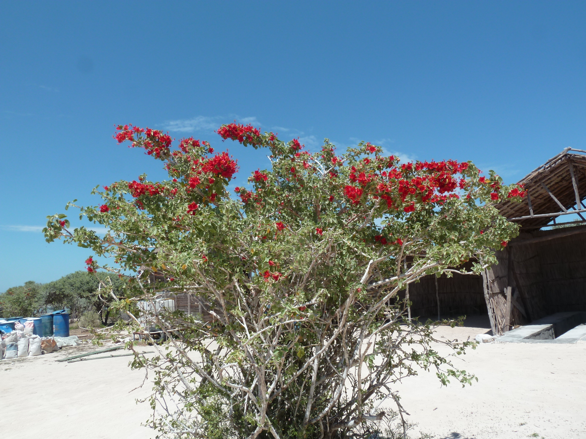 Megistostegium microphyllum at Nosy Hao in front of Andavadoeka (Andavadoaka), Madagascar